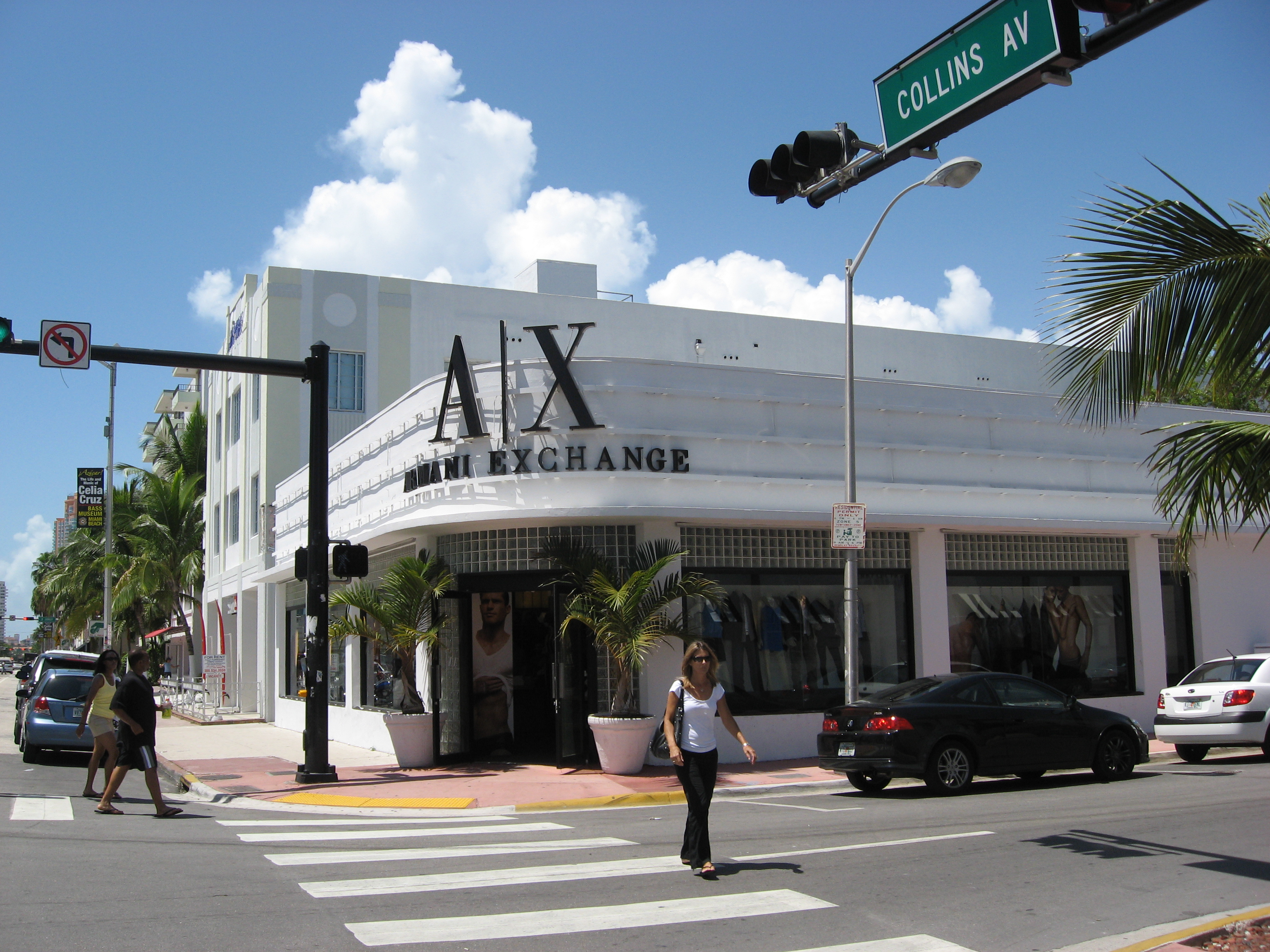 Armani Exchange in South Beach.